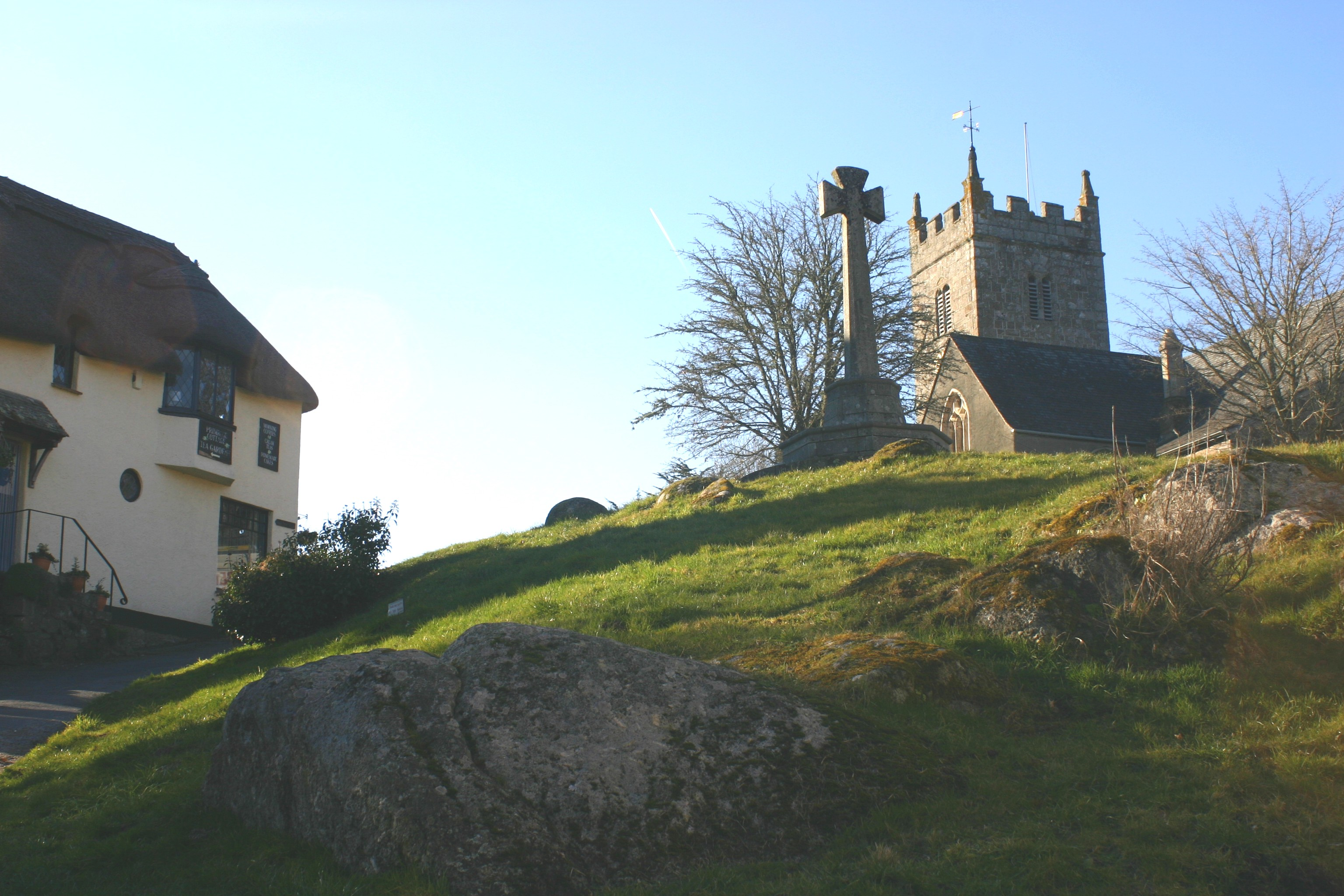 View in Lustleigh, Devon. Contains Celtic Cross, Church and Tea Rooms